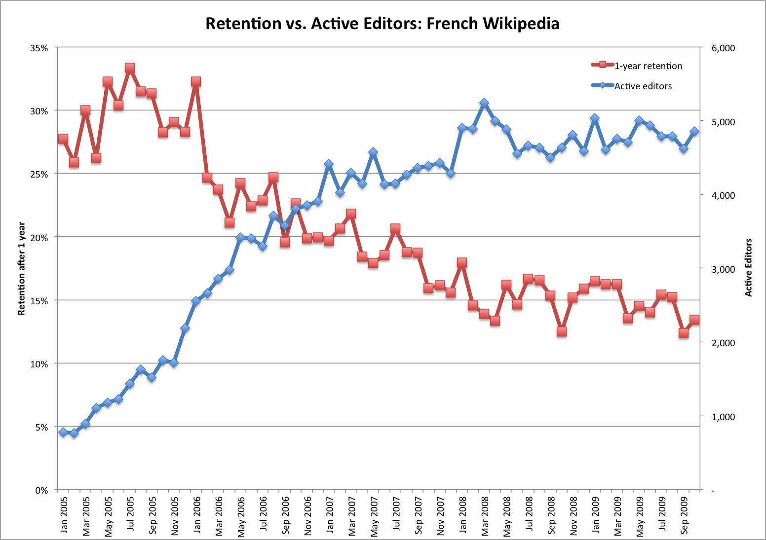 French Wikipedia retention rate vs. active editors